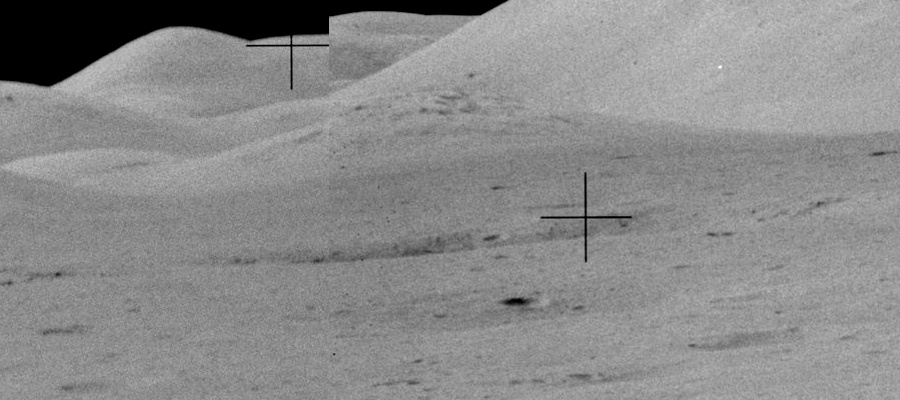 Cochise, Taurus–Littrow valley, the moon. Mosaic of two images taken at Geology Station 6 on the Apollo 17 mission. Facing southeast.